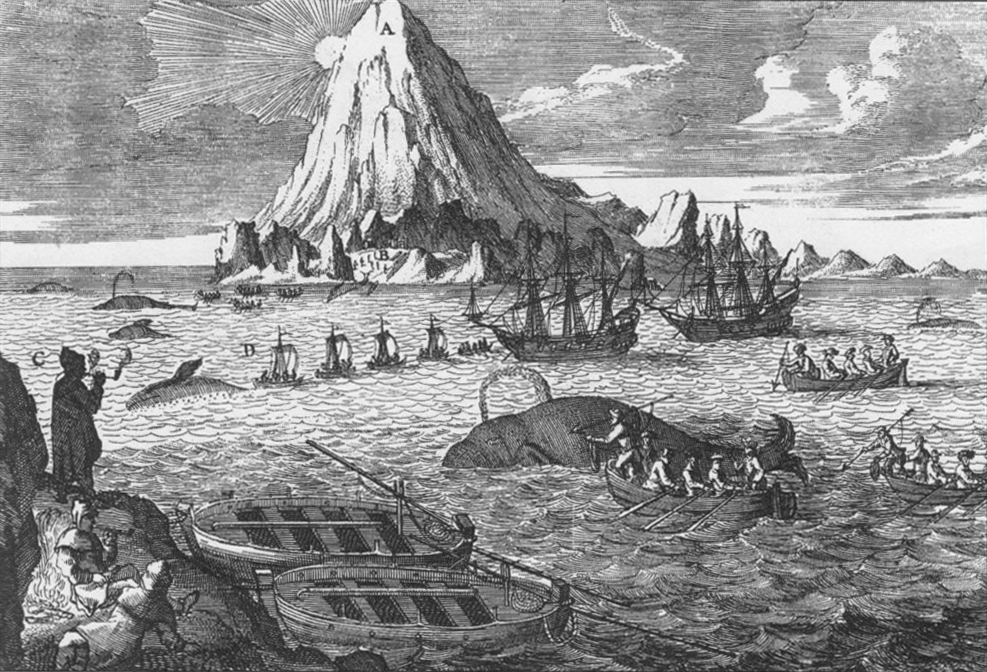 Arctic whaling in the eighteenth century. The ships are Dutch and the animals depicted are Bowhead Whales. Beerenburg on Jan Mayen Land can be seen in the background.